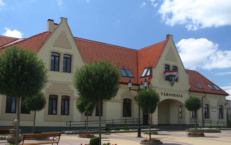 City Hall of Dunakeszi